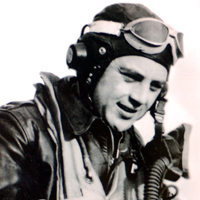 Colonel Hubert "Hub" Zemke from [1]